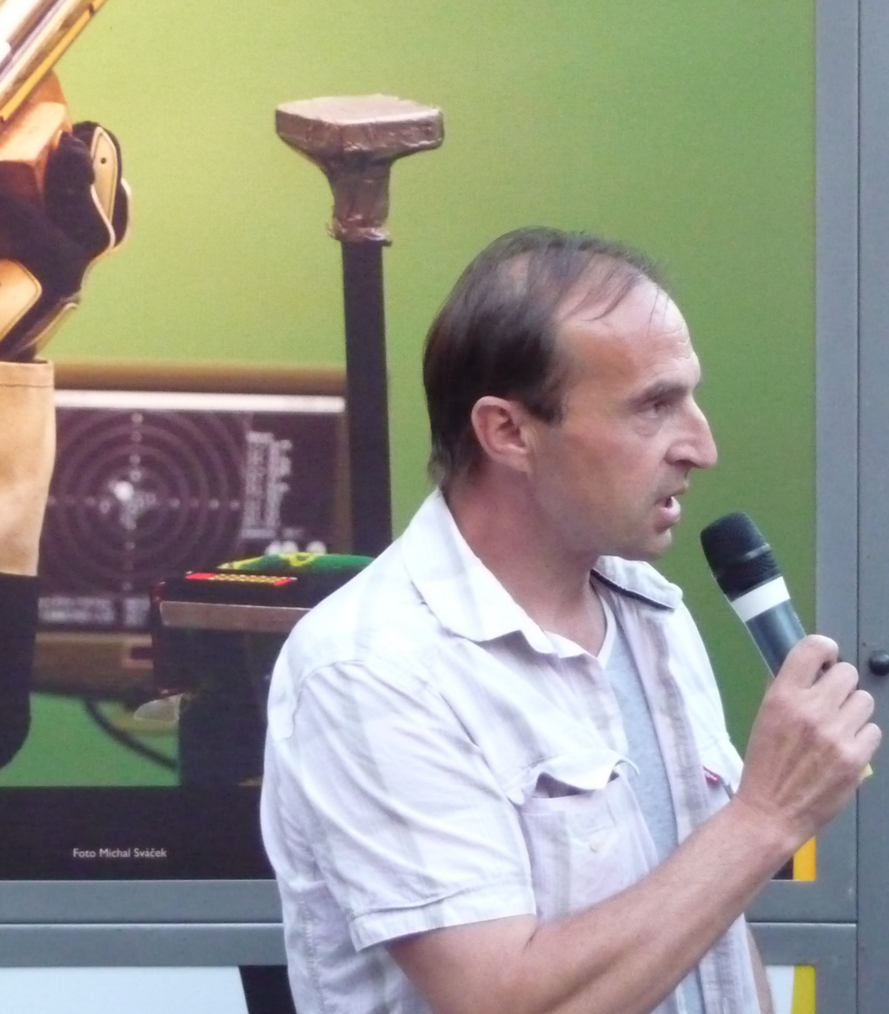 Petr Málek interviews with Jaromír Bosák, Žijeme Londýnem, Freedom Square, Brno